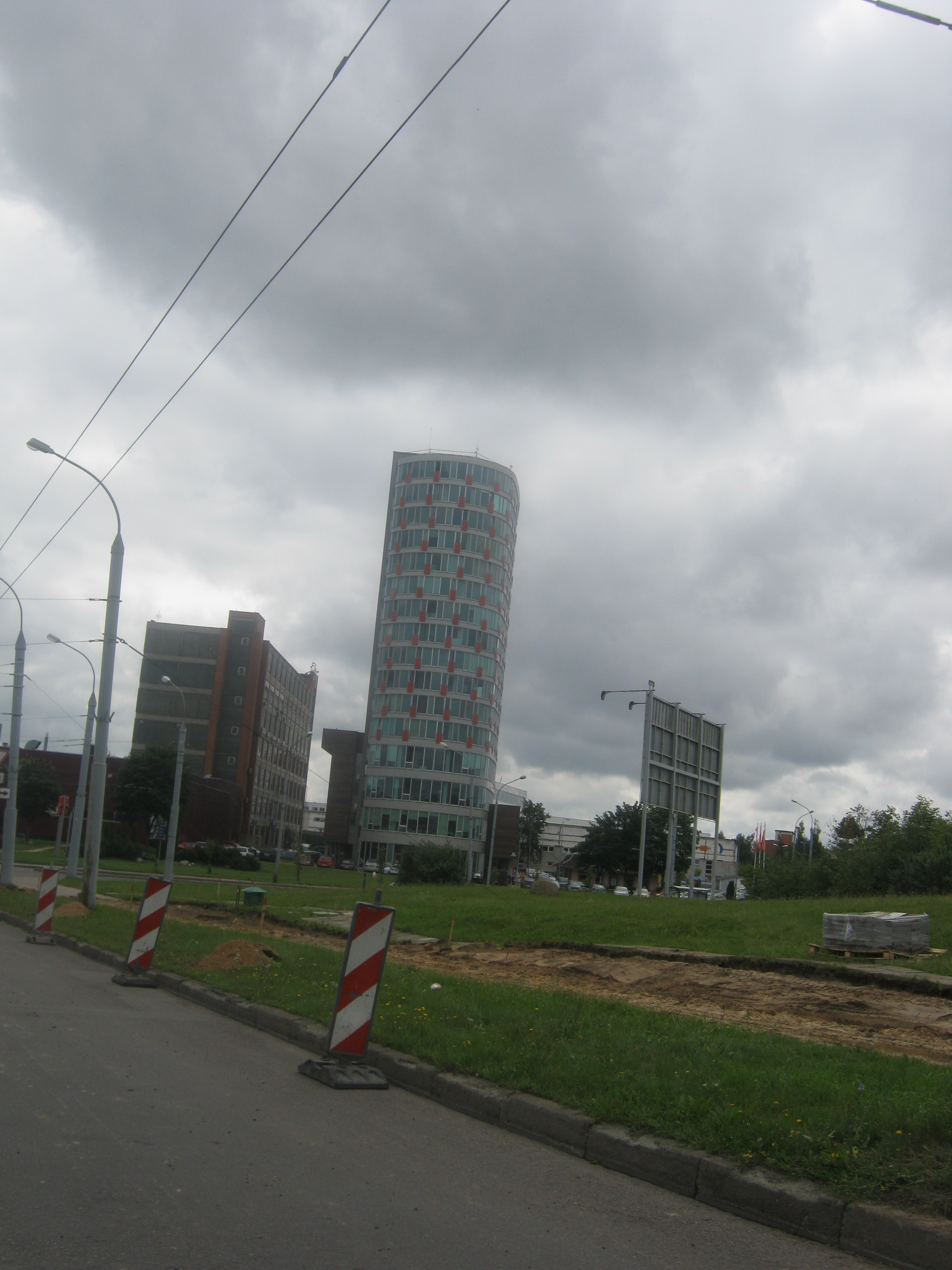 Vilnius